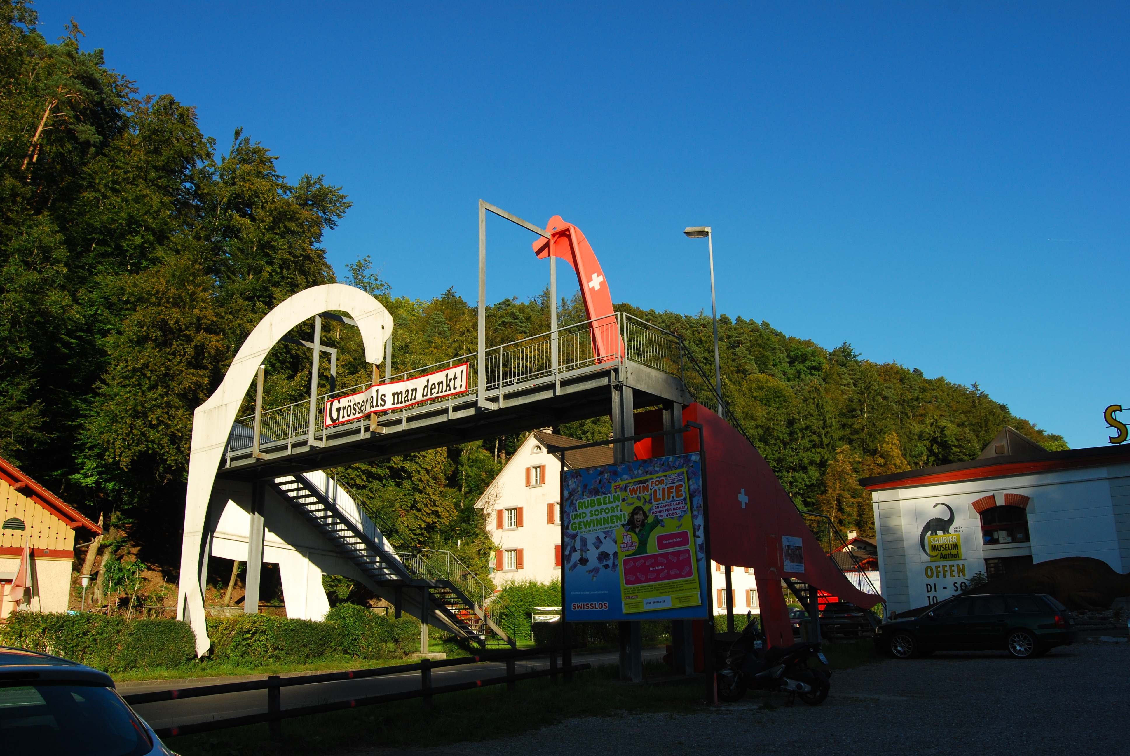 Dinosaur Museum Aatal at Seegräben, canton of Zürich, Switzerland